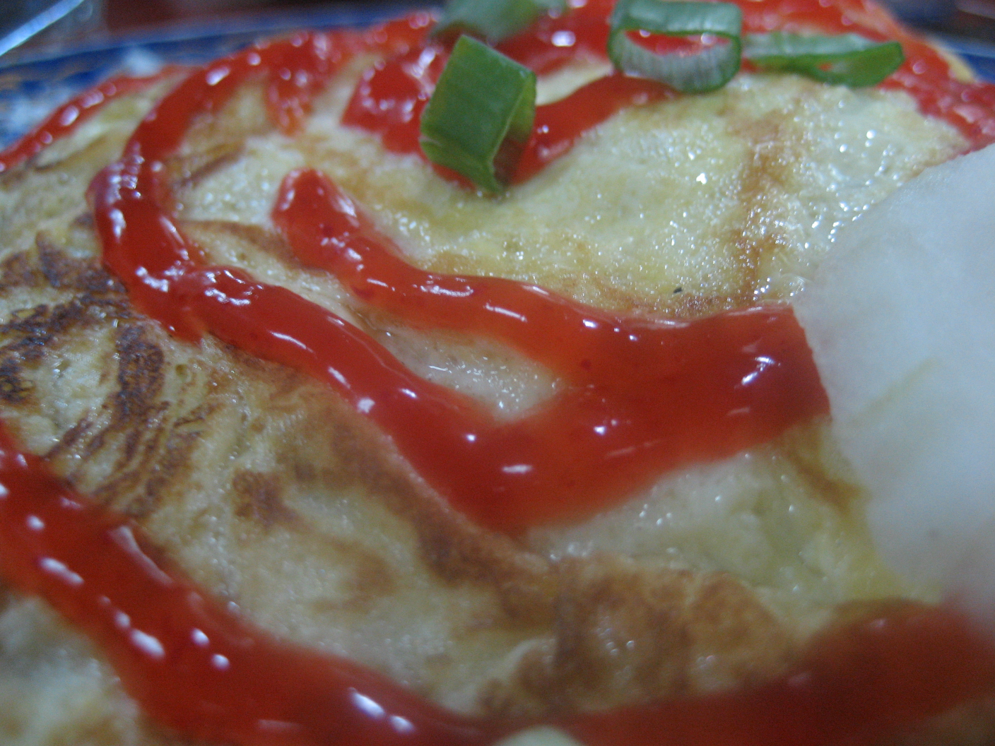 This is a photo I took of Nasi goreng pattaya in Nilai, Negeri Sembilan, Malaysia.